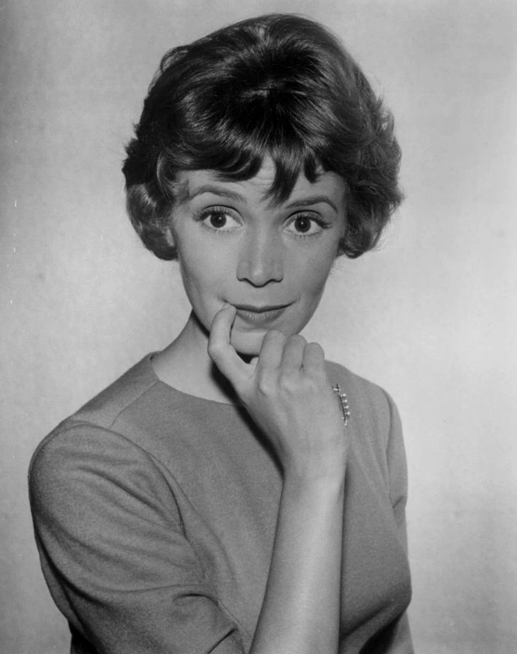 Photo of French actress Annie Fargue.